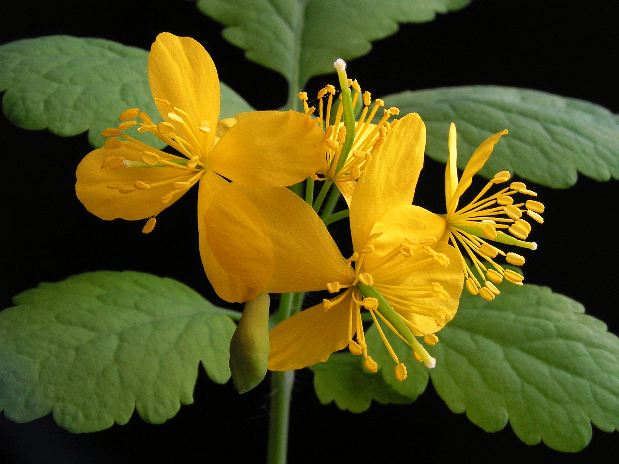 Flowers of Chelidonium majus. Moscow region, Russia.